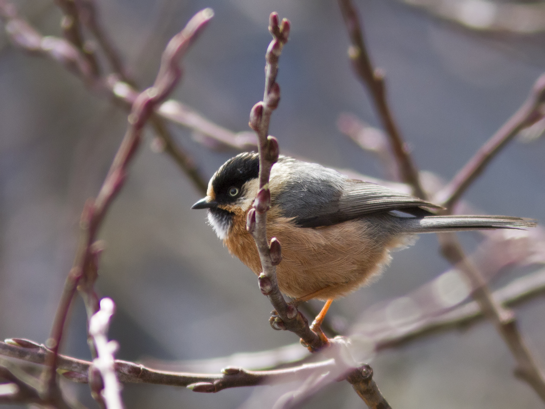 Aegithalos iouschistos at Bhutan